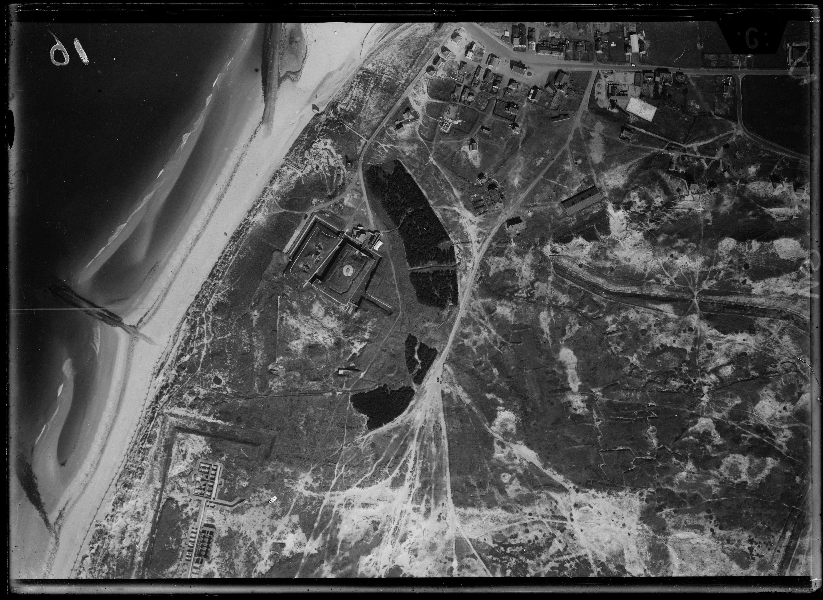 Aerial photograph of Kijkduin, The Netherlands